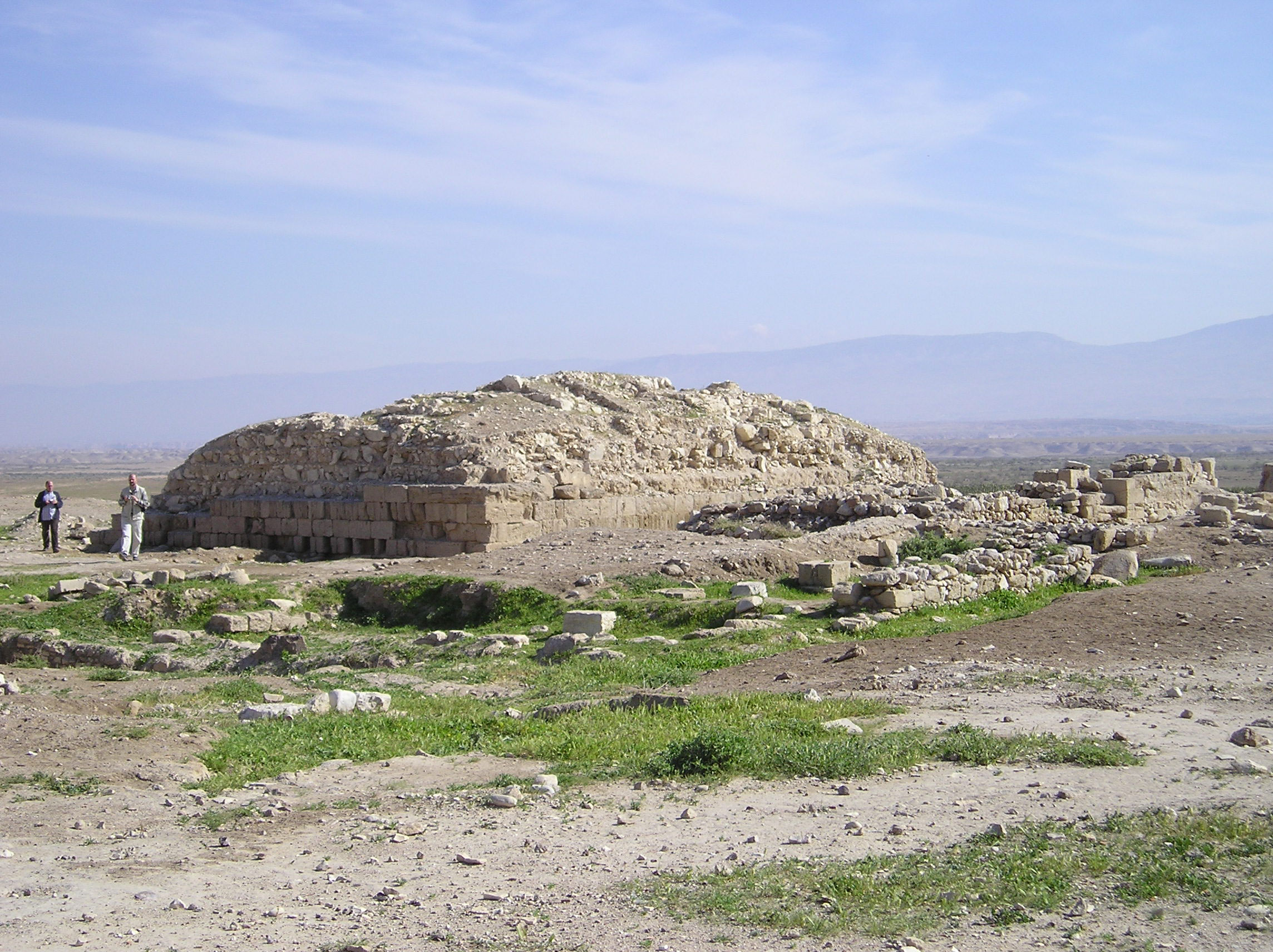 Ruins of Byzantinian church in Archelais, Israel